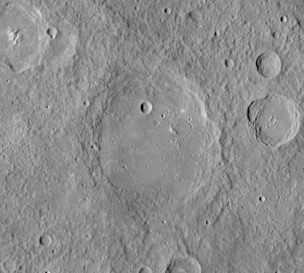 Slightly oblique view of Sullivan crater on Mercury. Mosaic of two MESSENGER Wide Angle Camera images, cropped to center the crater. Approximate north is up. Statistics below apply to right image of the mosaic: Emission Angle: 24.5 Incidence Angle: 63.6 Latitude: -16.0 Longitude: 276.4 Phase Angle: 39.0